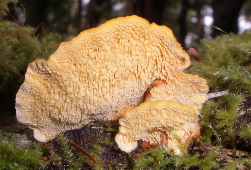 Pycnoporellus fulgens For more information about this, see the observation page at Mushroom Observer.